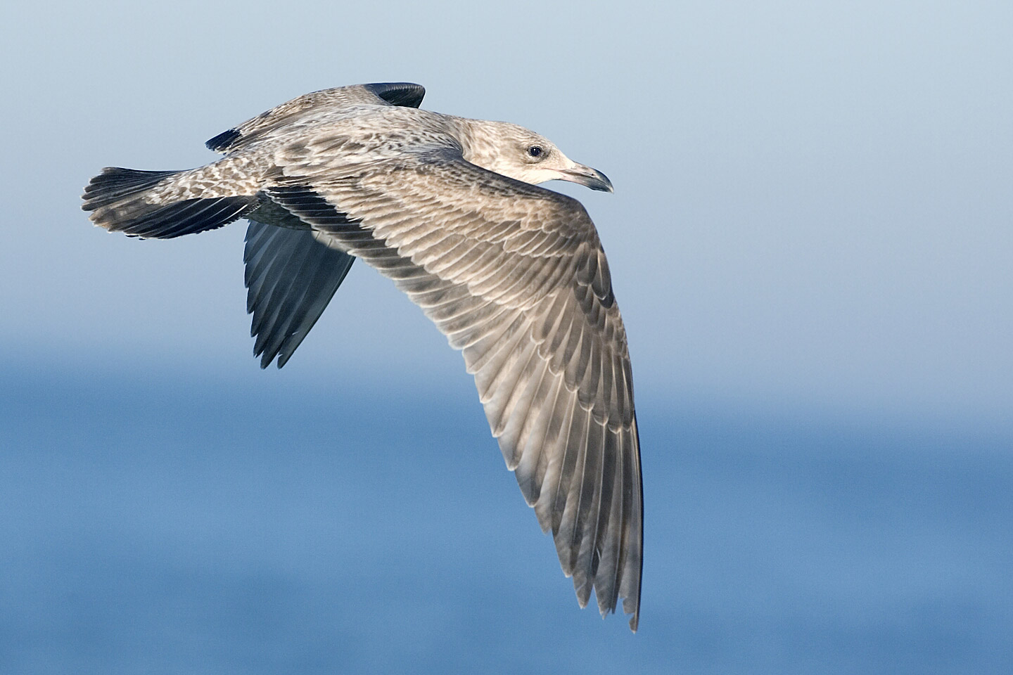 American Herring Gull, Fulton Harbour, Fulton, Texas